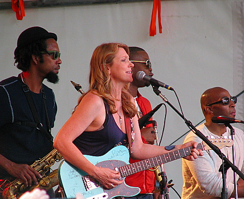 Susan Tedeschi and the Tedeschi Trucks Band performing at the Appel Arts and Music Festival in Elmer, New Jersey, June 2012.